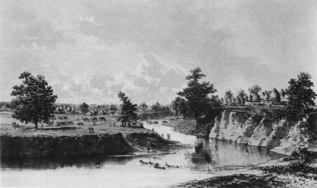 Afgooye, Somalia